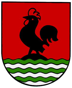 Coat of Arms of Markersbach in Raschau-Markersbach